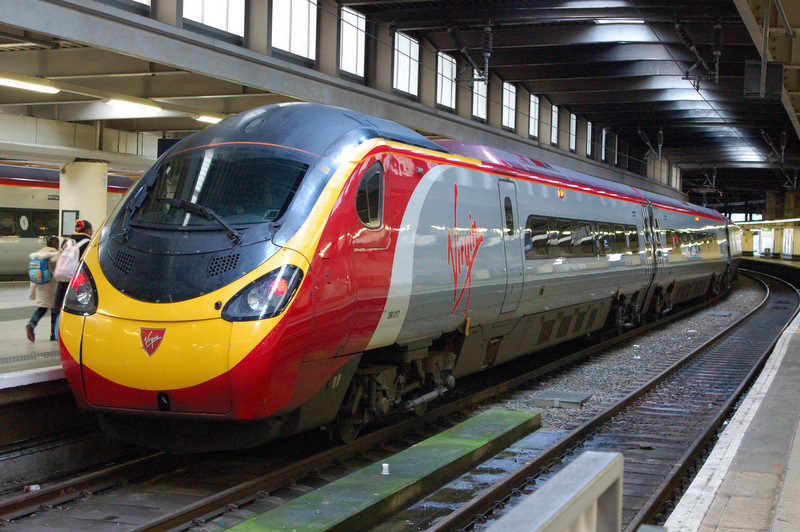 Virgin Trains 390017 stands at London Euston.